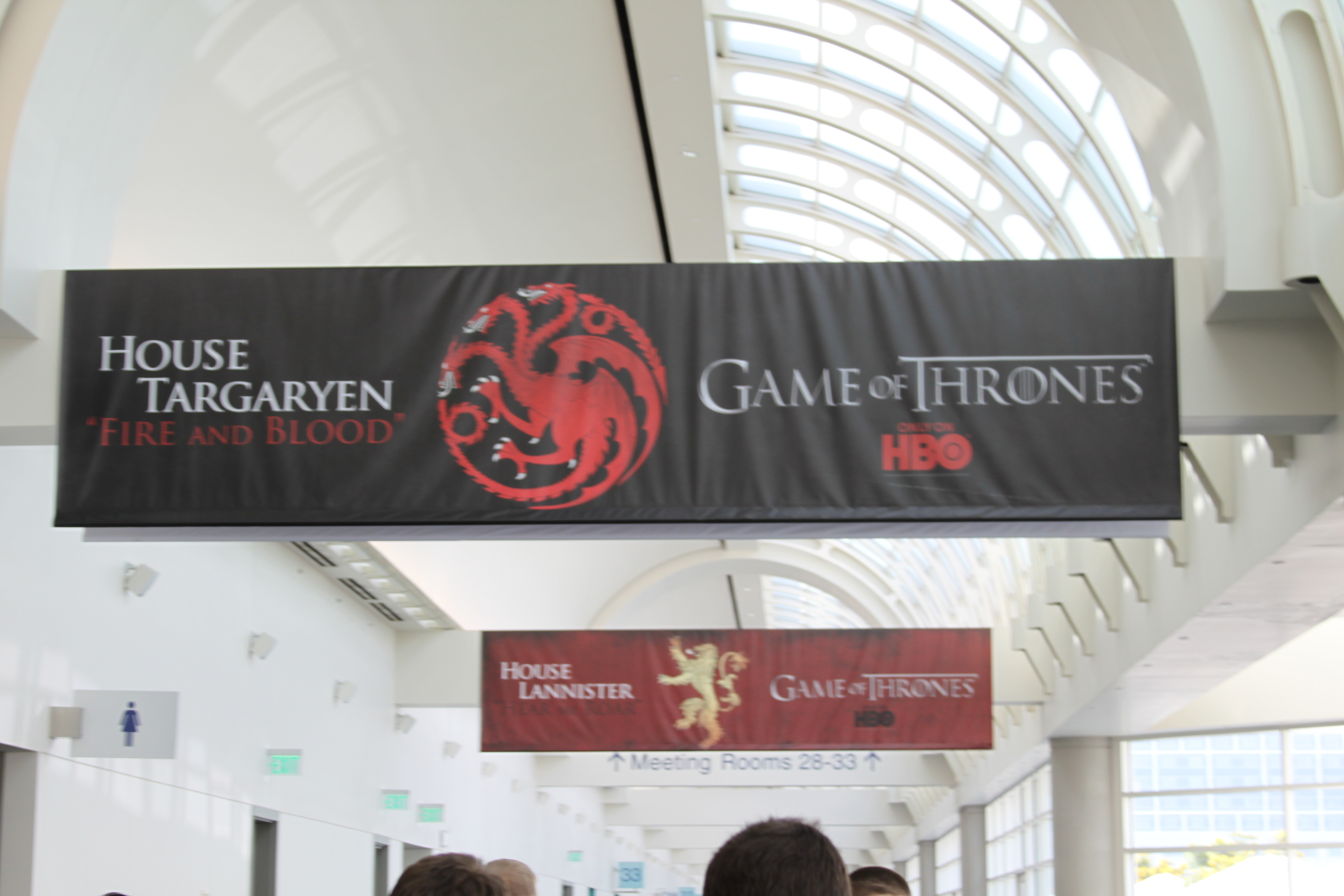 Game of Thrones sign